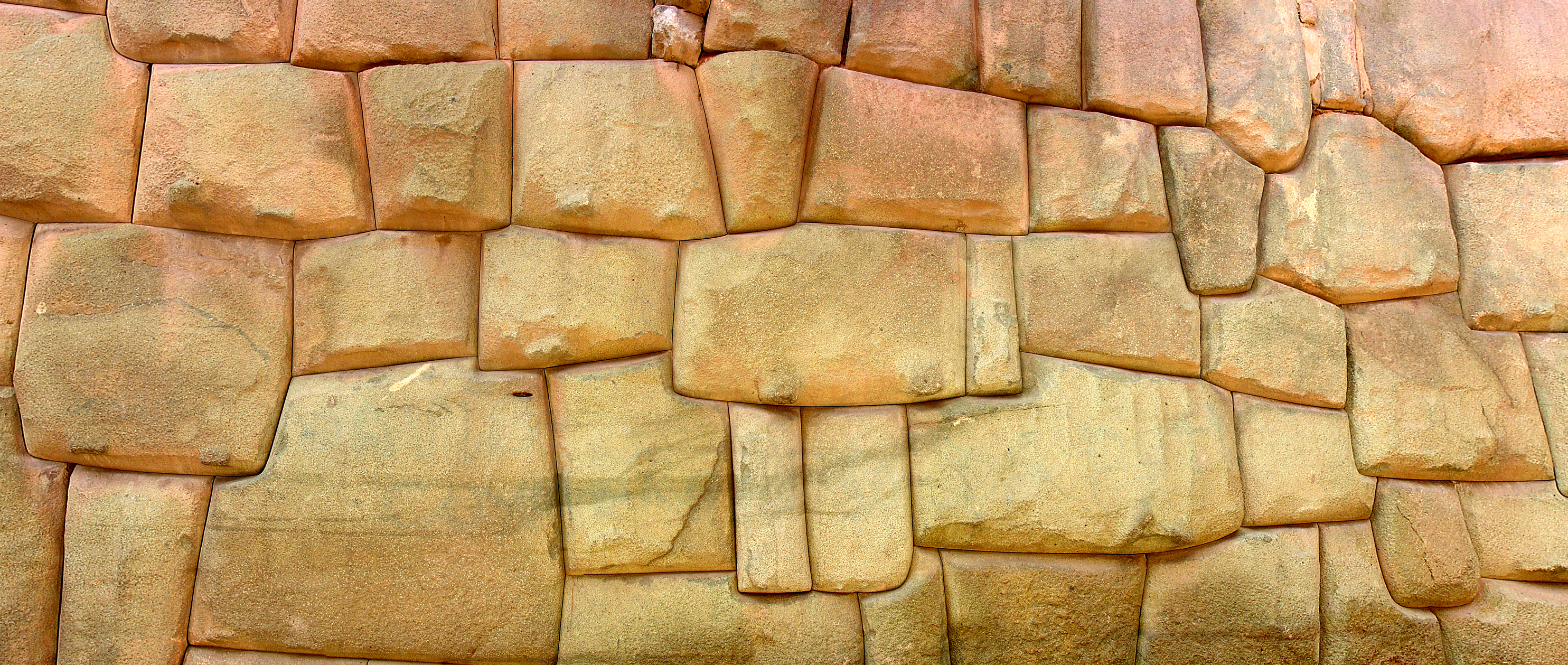 Inca Wall in Cuzco, Peru